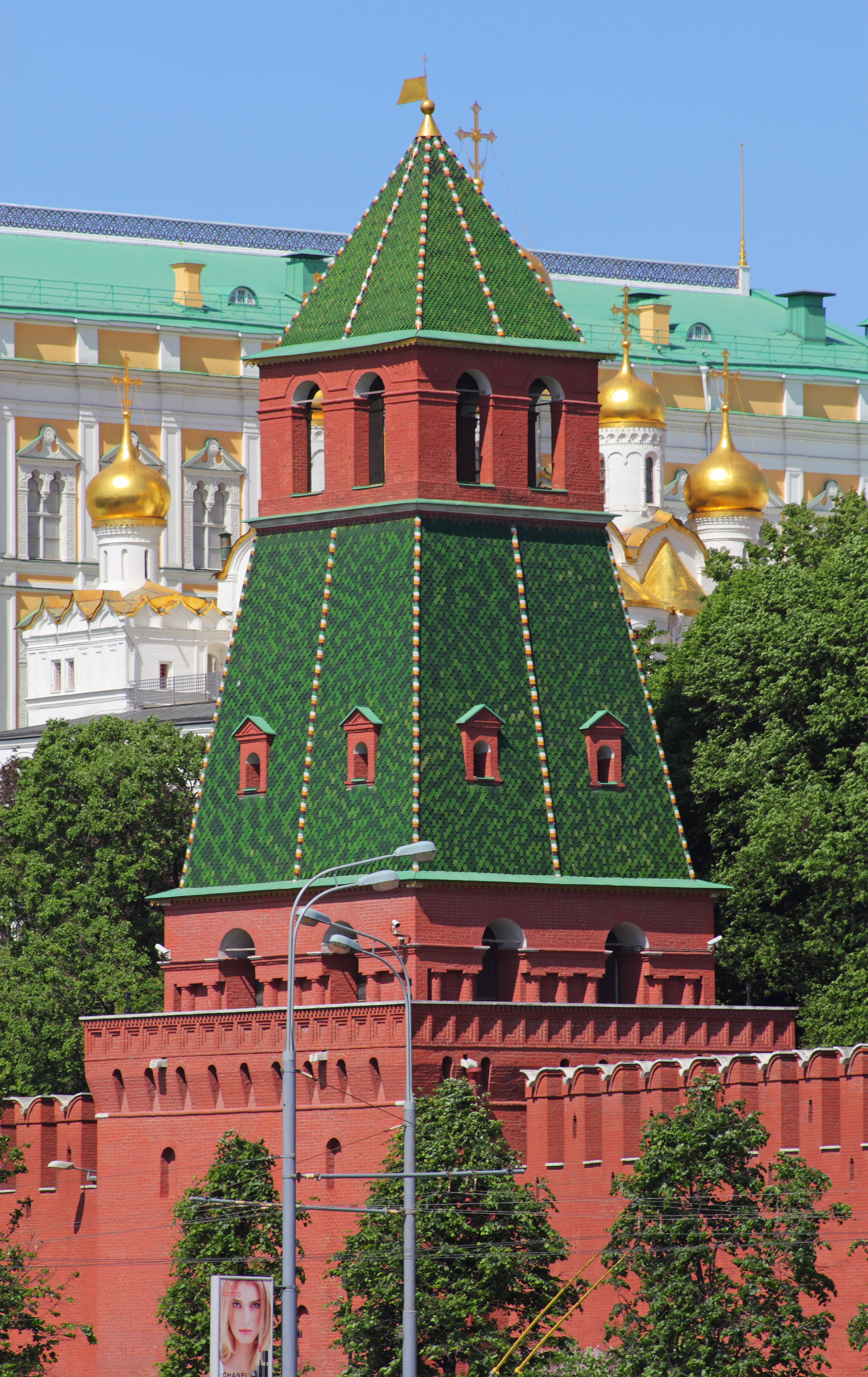 Moscow, Russia. Pervaya Bezymyannaya (First Nameless) Tower of the Moscow Kremlin.